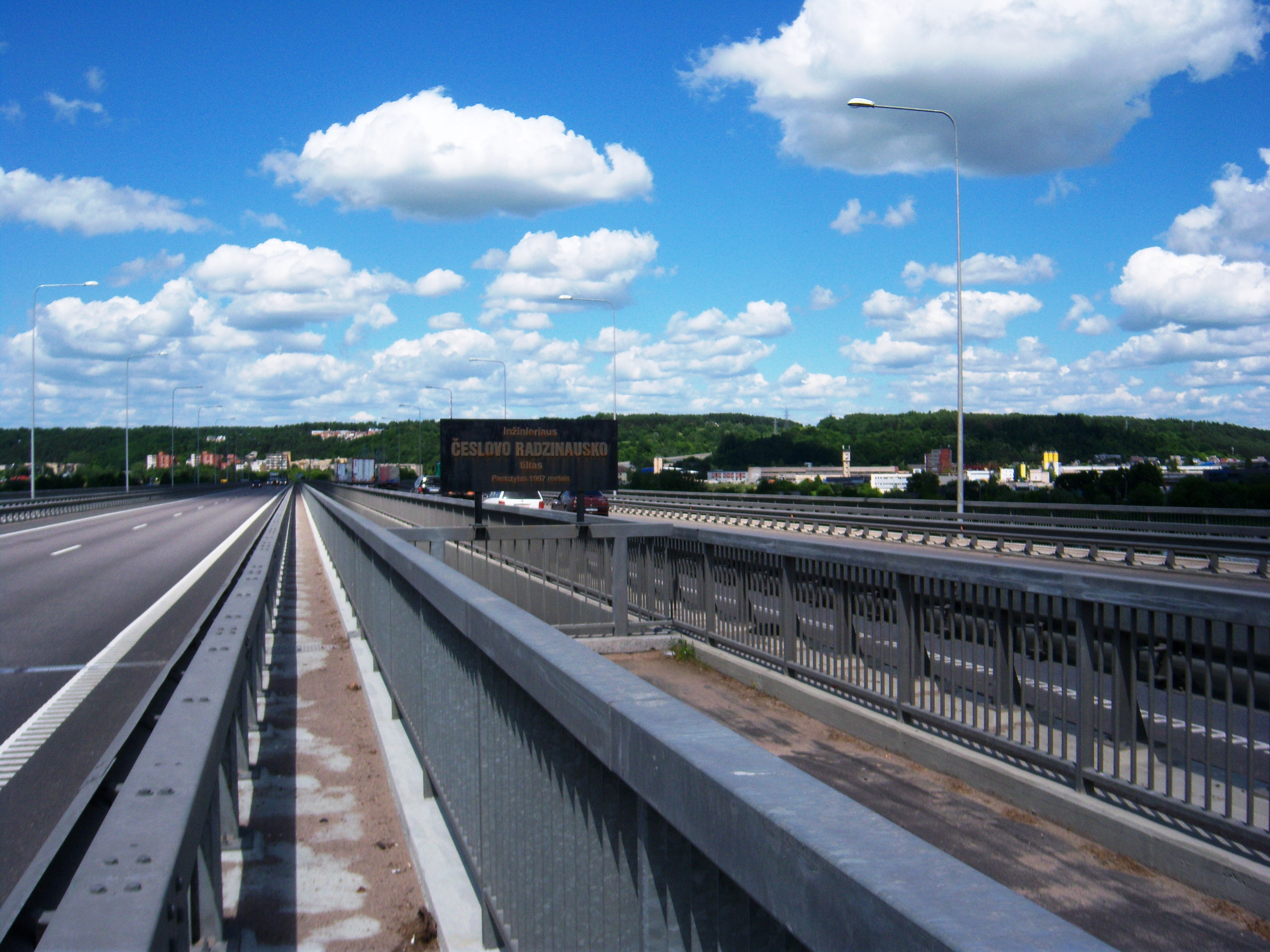 Česlovas Radzinauskas Bridge over the Nemunas, Kaunas, Lithuania